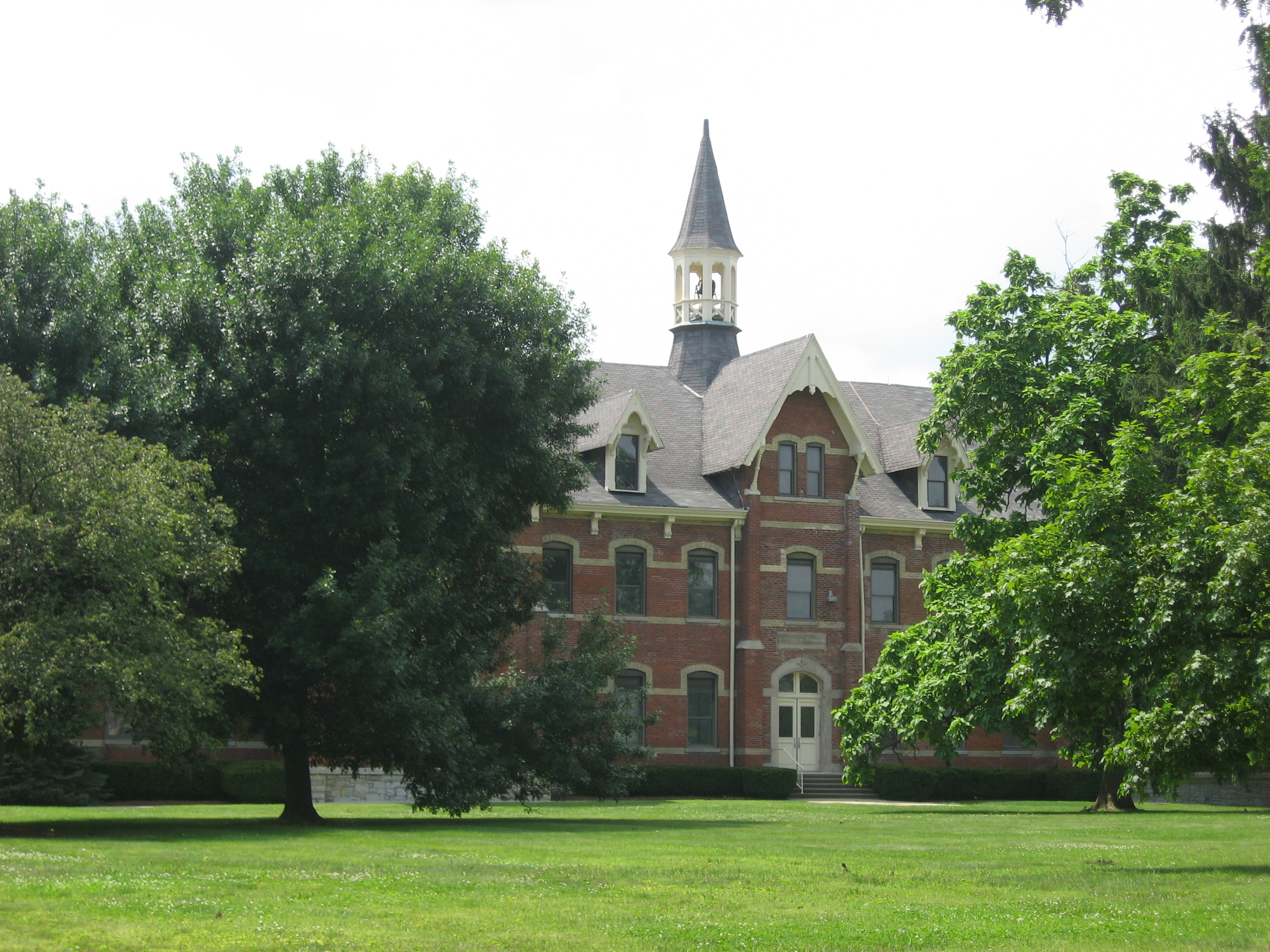 Front of the General German Protestant Orphans Home, located at 1404 S. State Street in Indianapolis, Indiana, United States. Built in 1871, it is listed on the National Register of Historic Places.